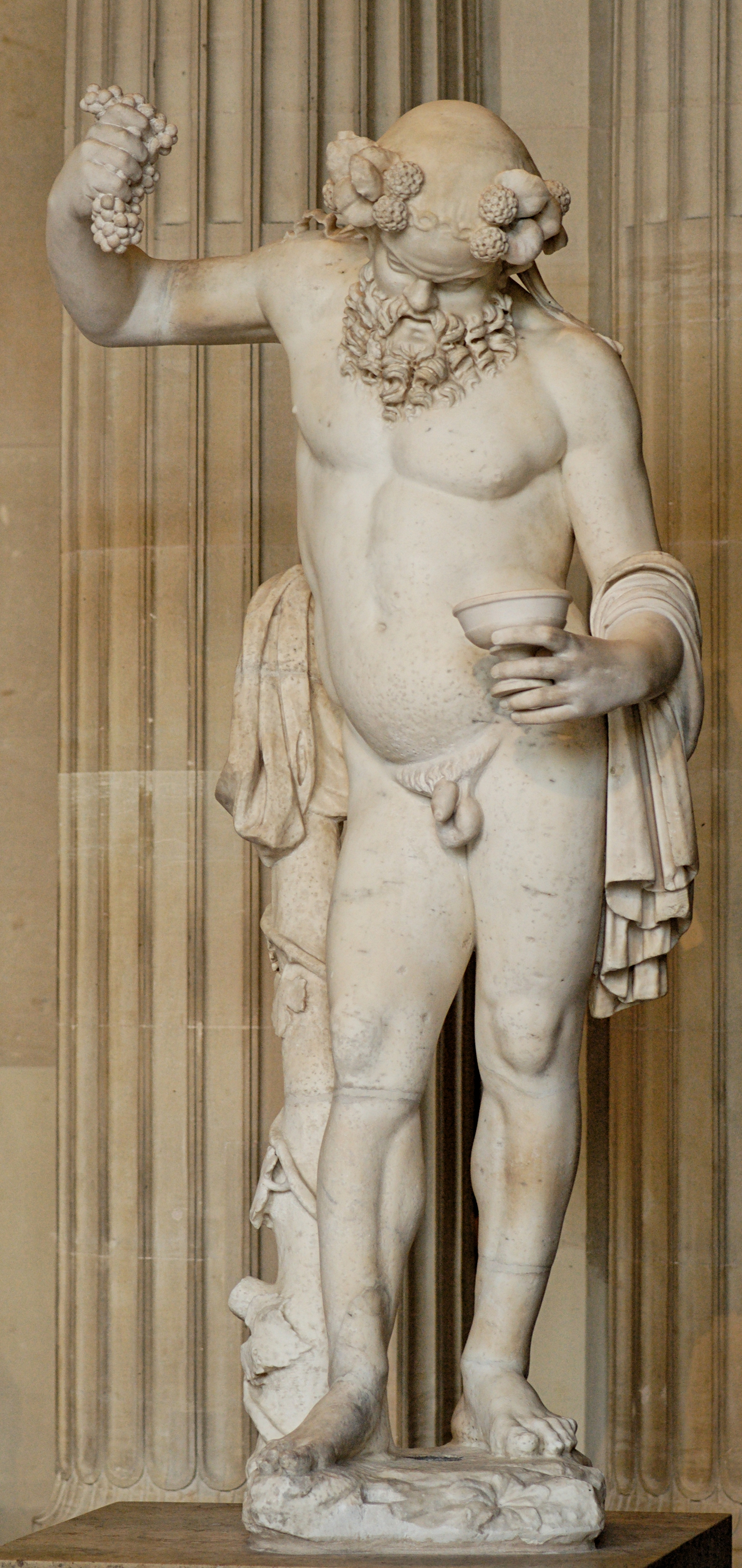 Drunken Silenus. Parian marble, Roman artwork of the 2nd century AD. May be inspired by the Pouring Satyr by Praxiteles.